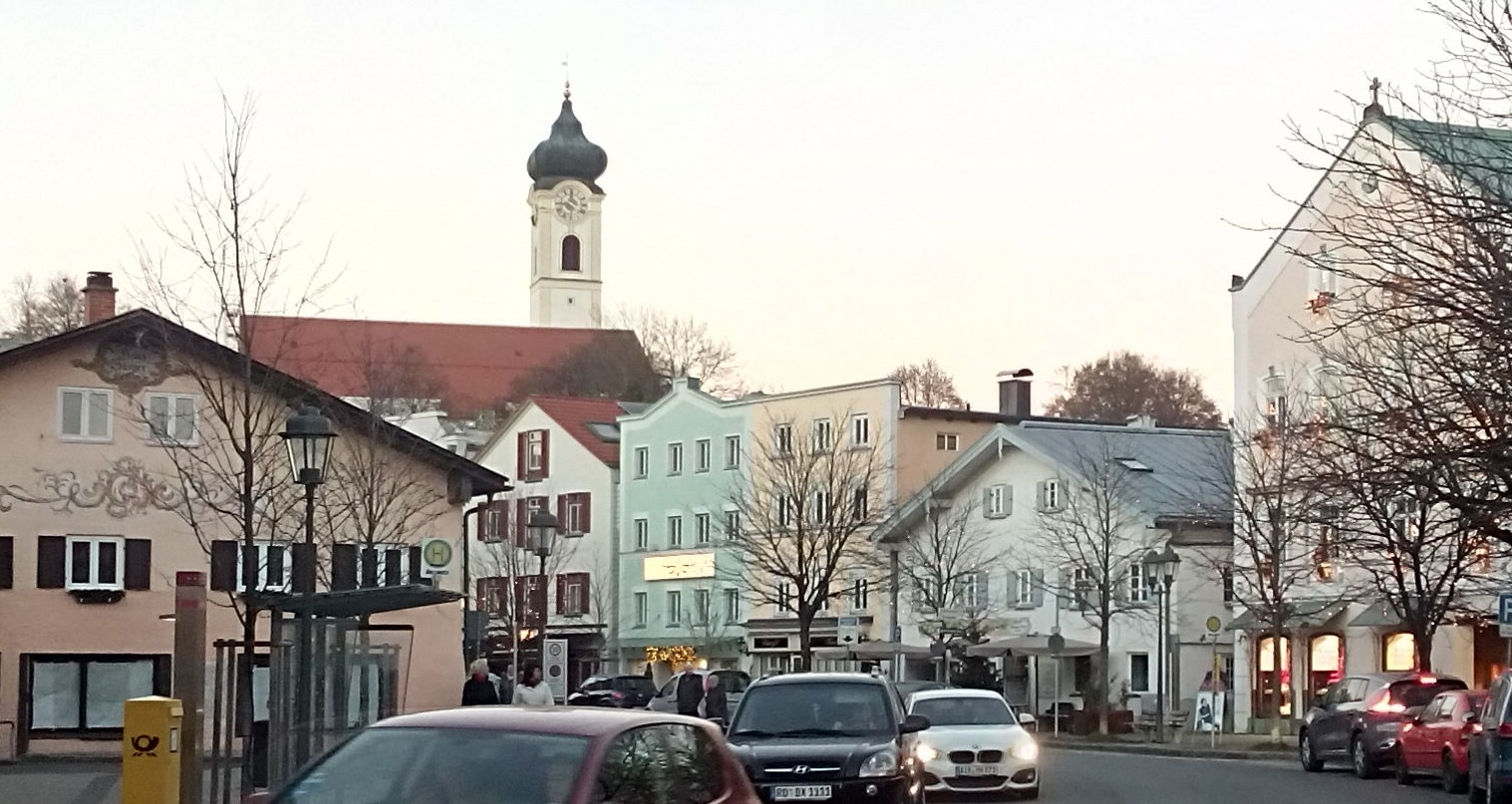 Kirchzeile in Bad Aibling (December 2016)